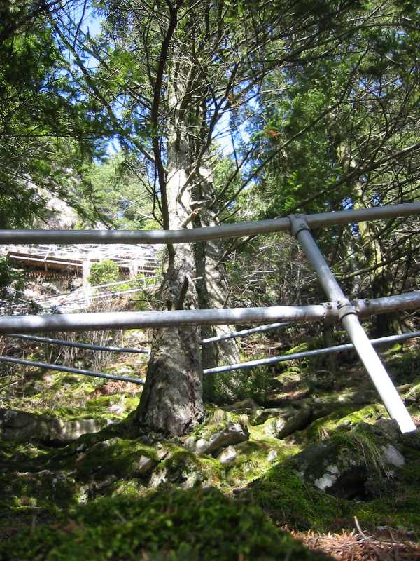 Railings of the unique switchback trail to the summit of Beacon Rock, in the Columbia River Gorge in the U.S. state of Washington.